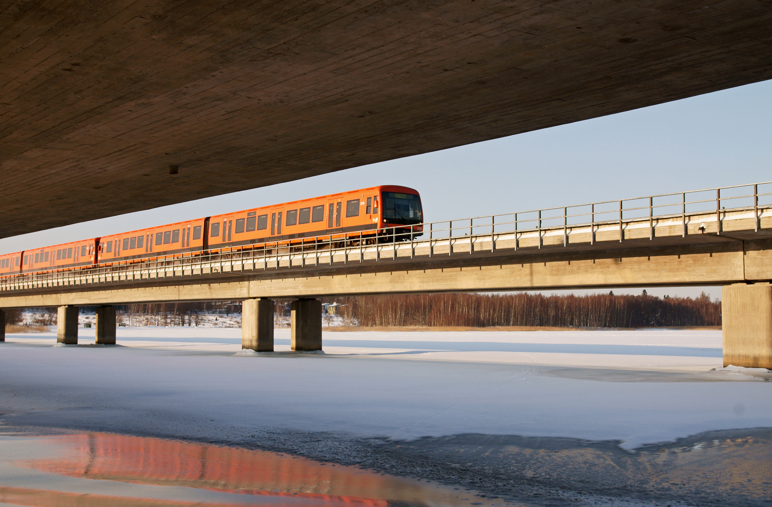 A Helsinki metro train crossing the Vuosaari metro bridge, between the stations of Rastila and Puotila.